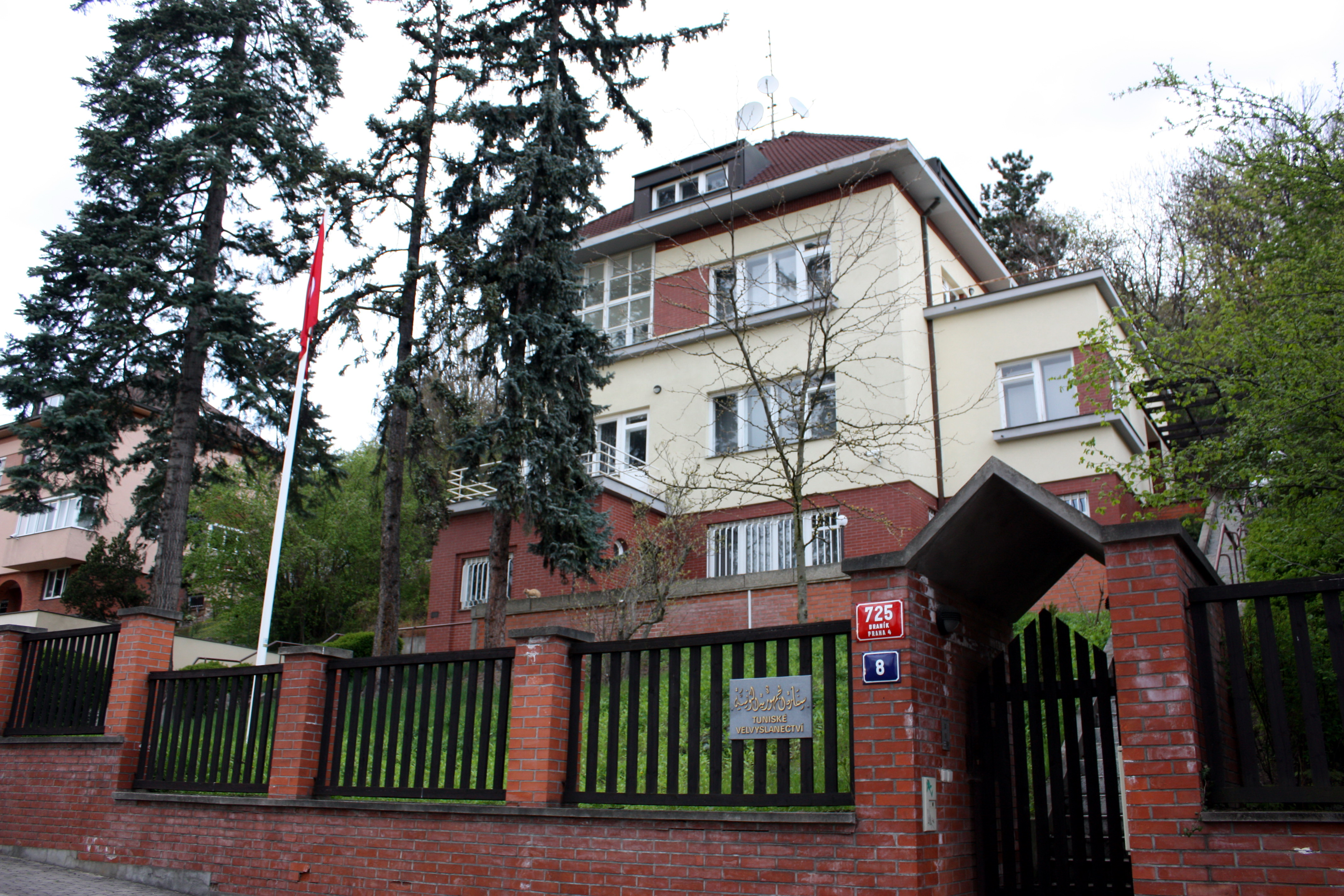 Embassy of Tunisia in Prague 4 - Braník, Czechia.